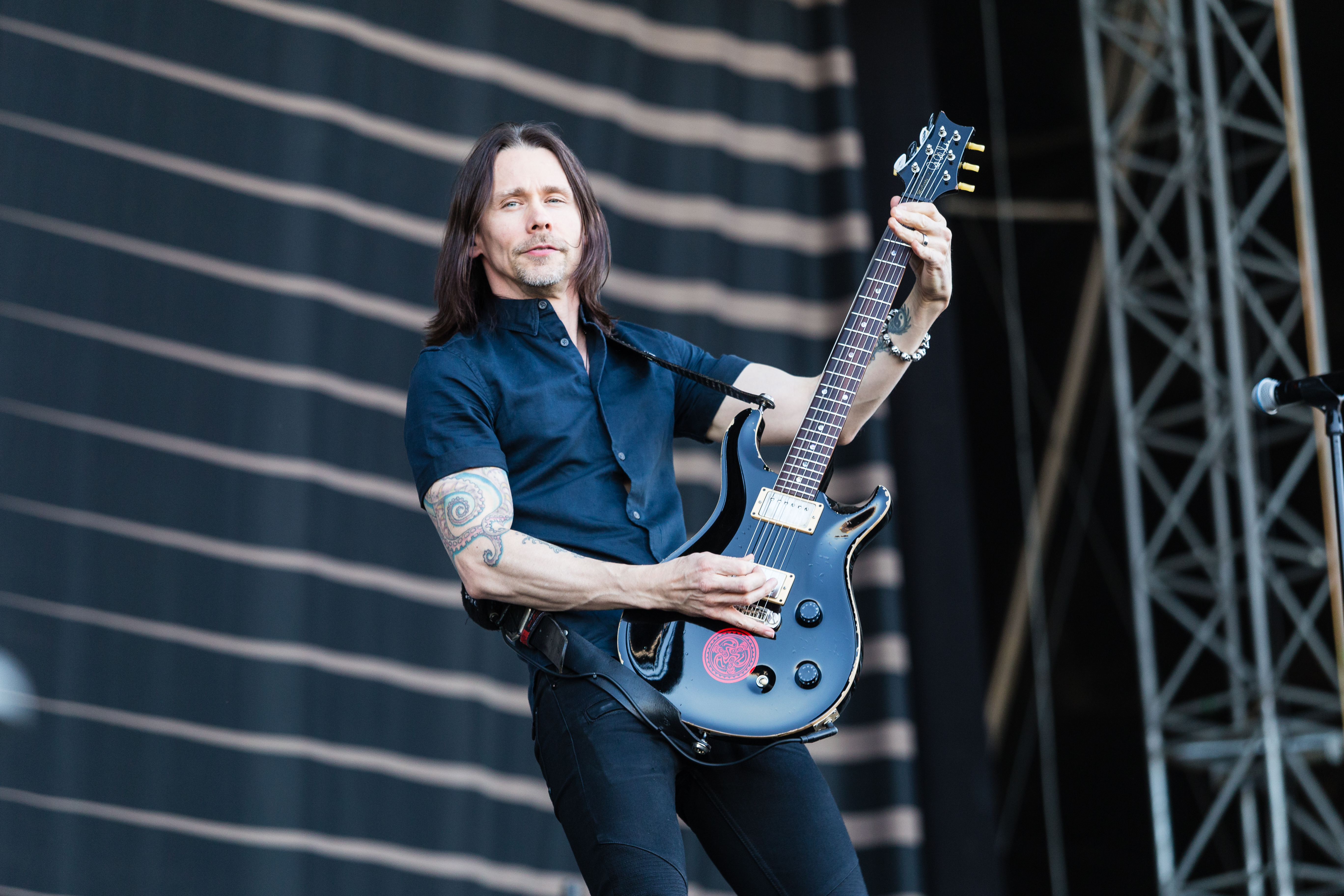 Nova Rock 2017 Myles Kennedy from Alter Bridge at the Nova Rock 2017